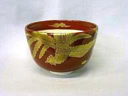 Kinrande bowl with phoenix design